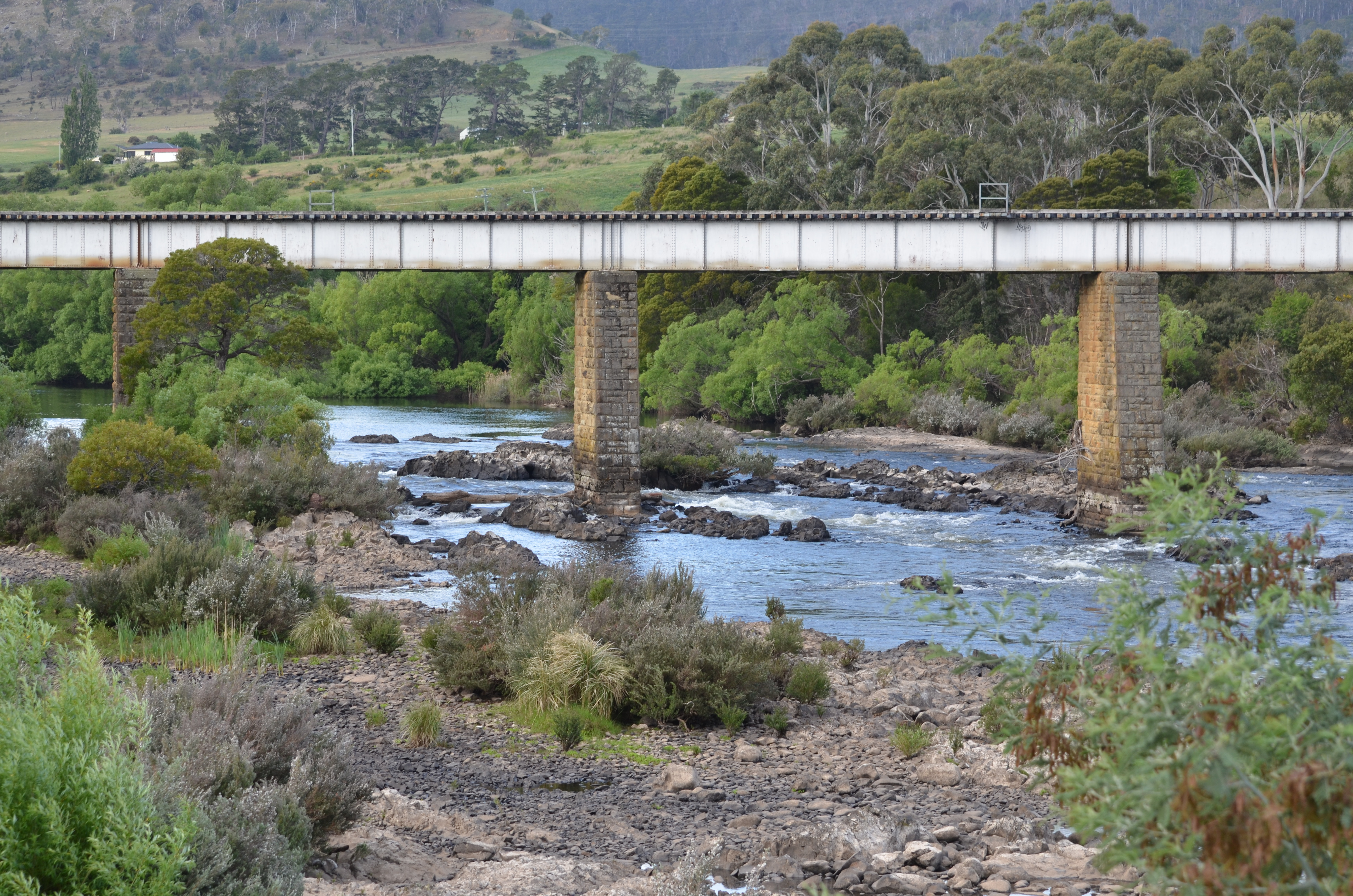 The Derwent Valley Railway is currently closed but there are plans to re open. Read more about New Norfolk. If visiting we recommend staying at Hawthorn Lodge which is 10 minutes north of New Norfolk in Bushy Park. New Norfolk is 30 minutes north of Hobart, Tasmania.